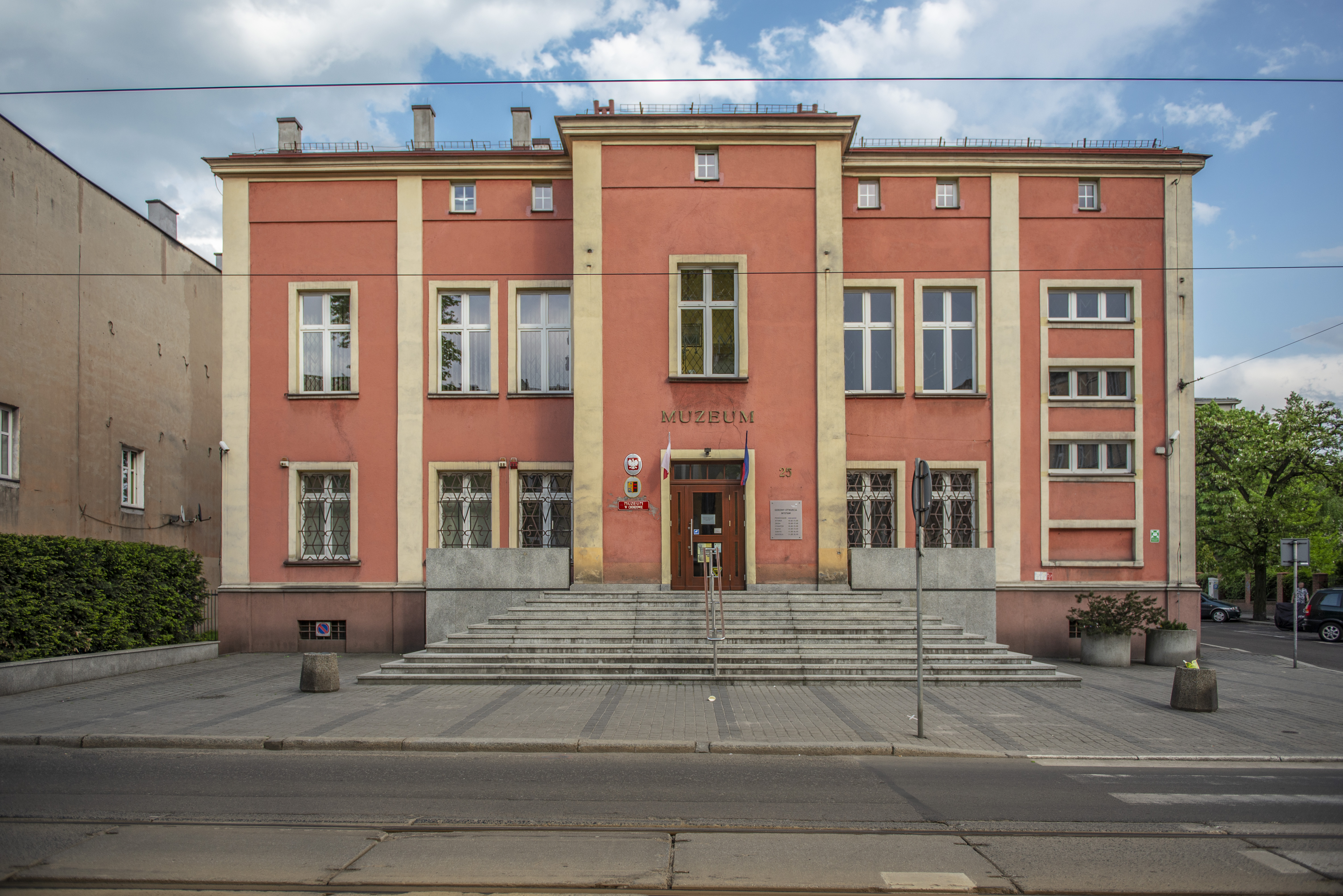 Museum in Chorzów